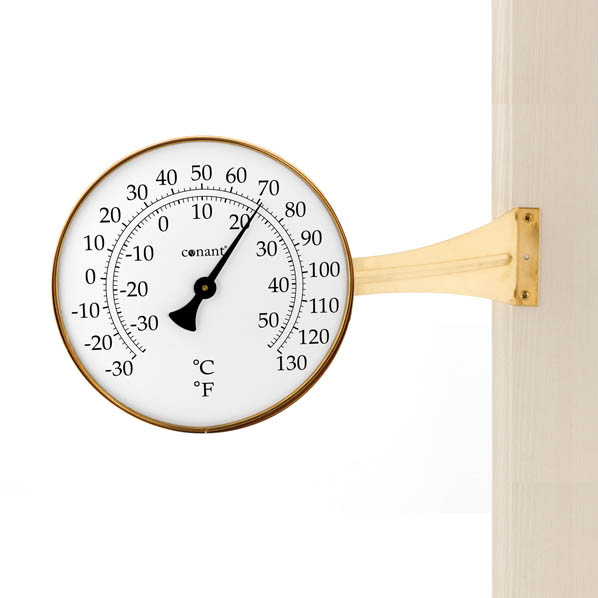 Conant Vermont solid brass Large Dial Thermometer with super-sized dial and convex crystal glass for easy distance viewing.